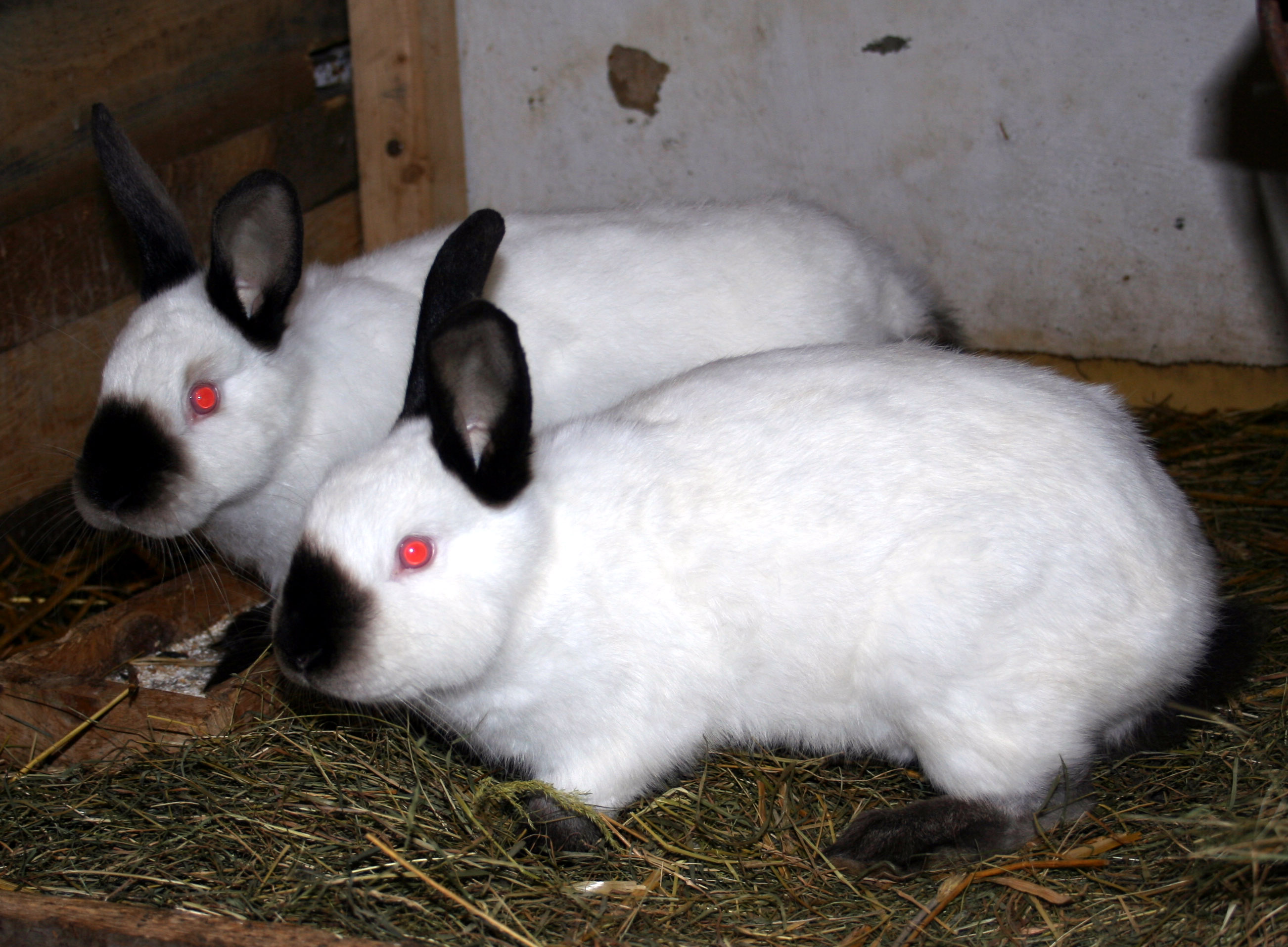 Californian rabbits, norrmally their eyes are light blue to red, here an additional red eye effekt makes them pink.